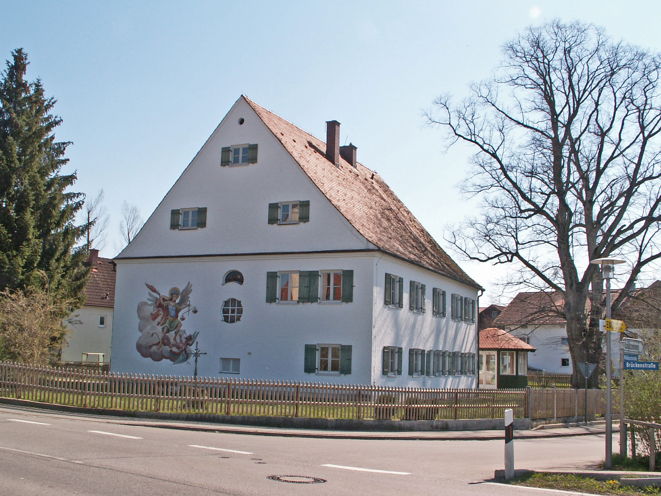 Pfarrhof in Thalhofen a. d. Wertach, Stadt Marktoberdorf